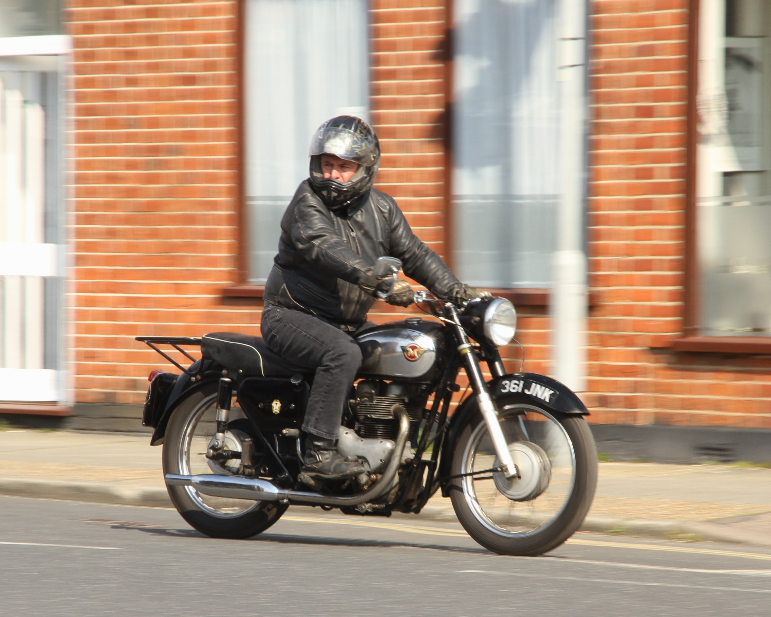 Twin-cylinder Matchless G12 motorcycle in Felixstowe, Suffolk. The registration mark was issued by Hertfordshire County Council in 1960.